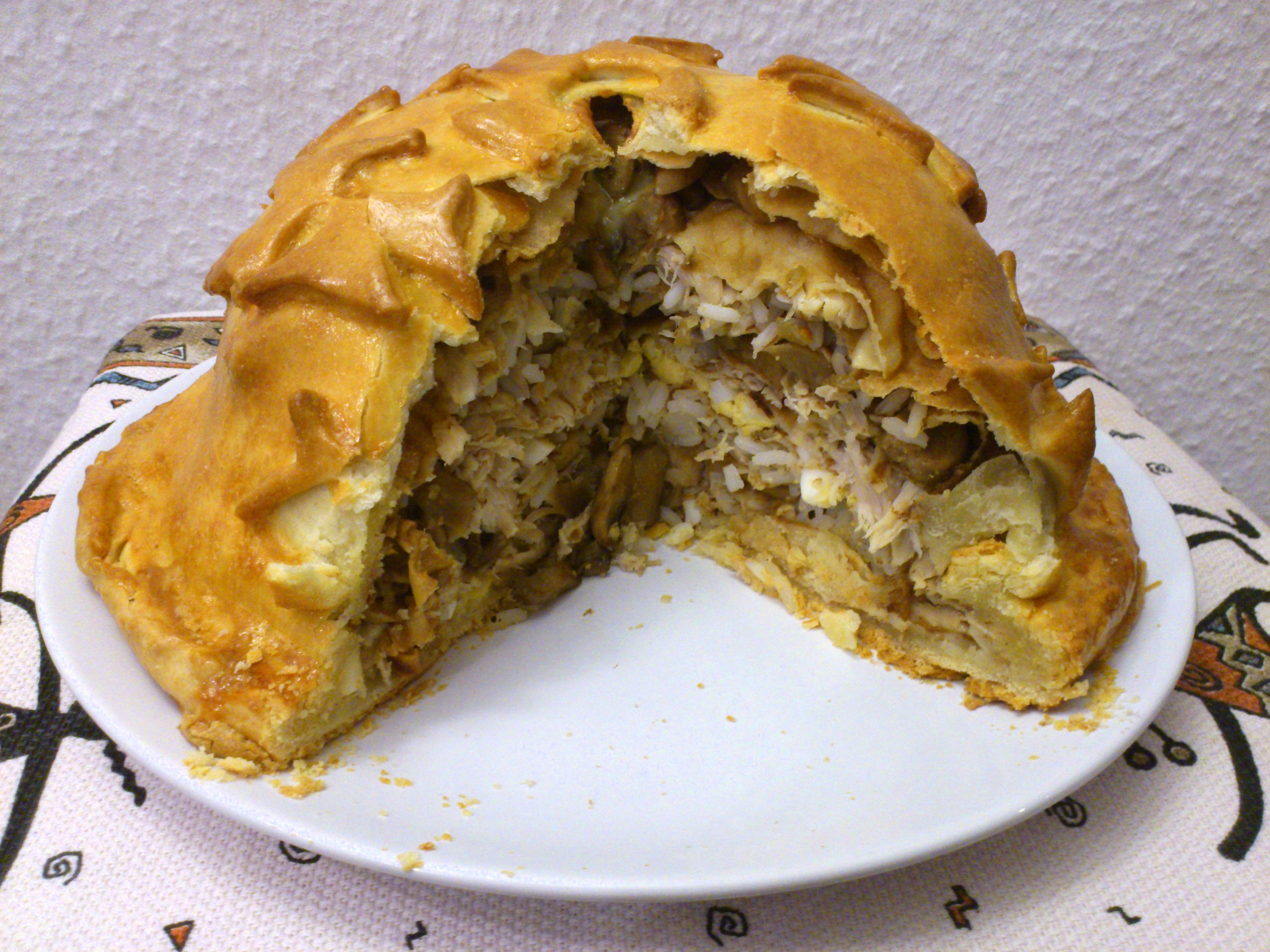 Kurnik, traditional big Russian pie for celebration table. This one is filled with slices of chicken, mushrooms, blini, rice, eggs.